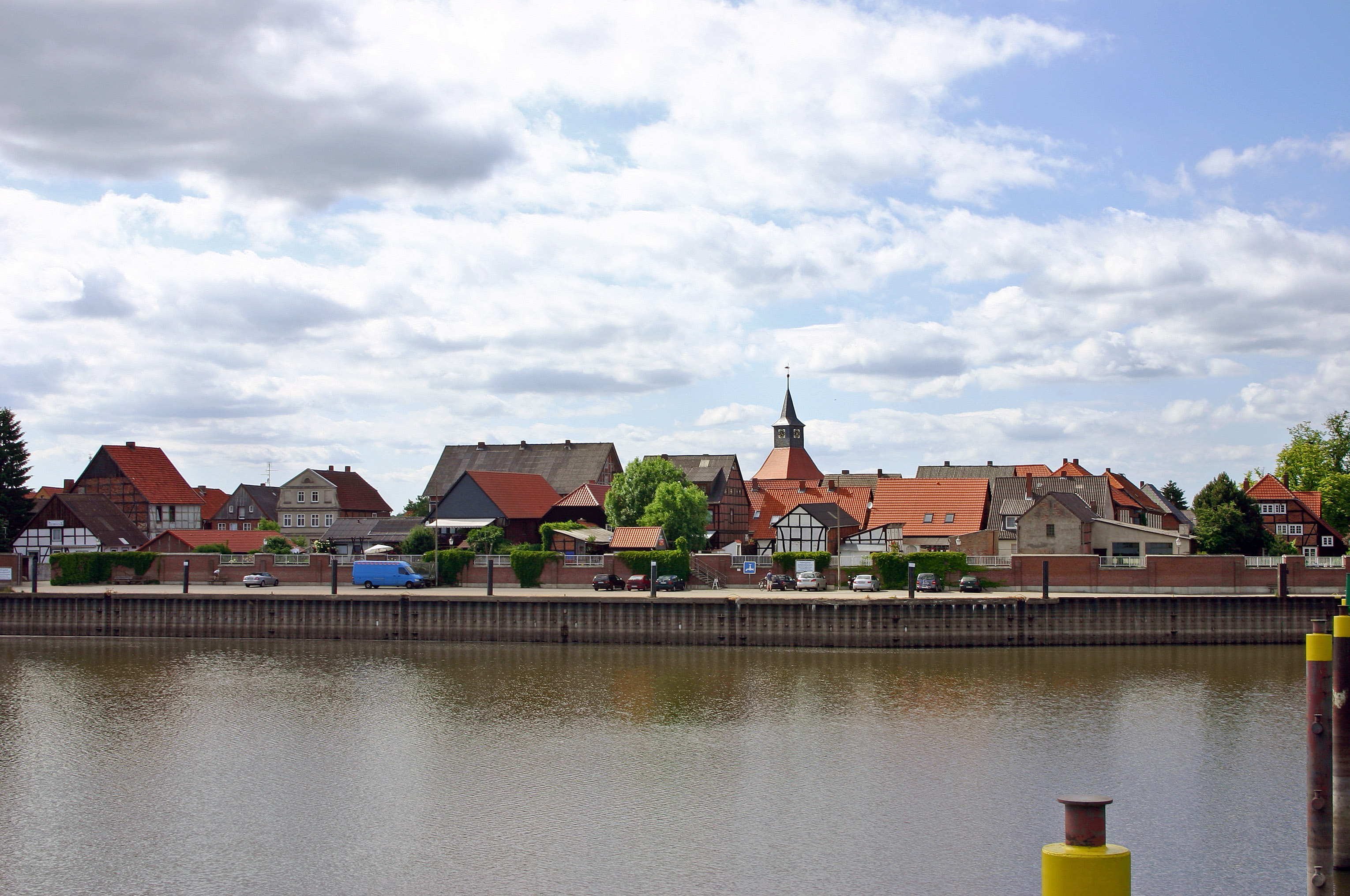 Schnackenburg, the smallest town in Lower Saxony, Germany, situated on the left bank of the river Elbe.